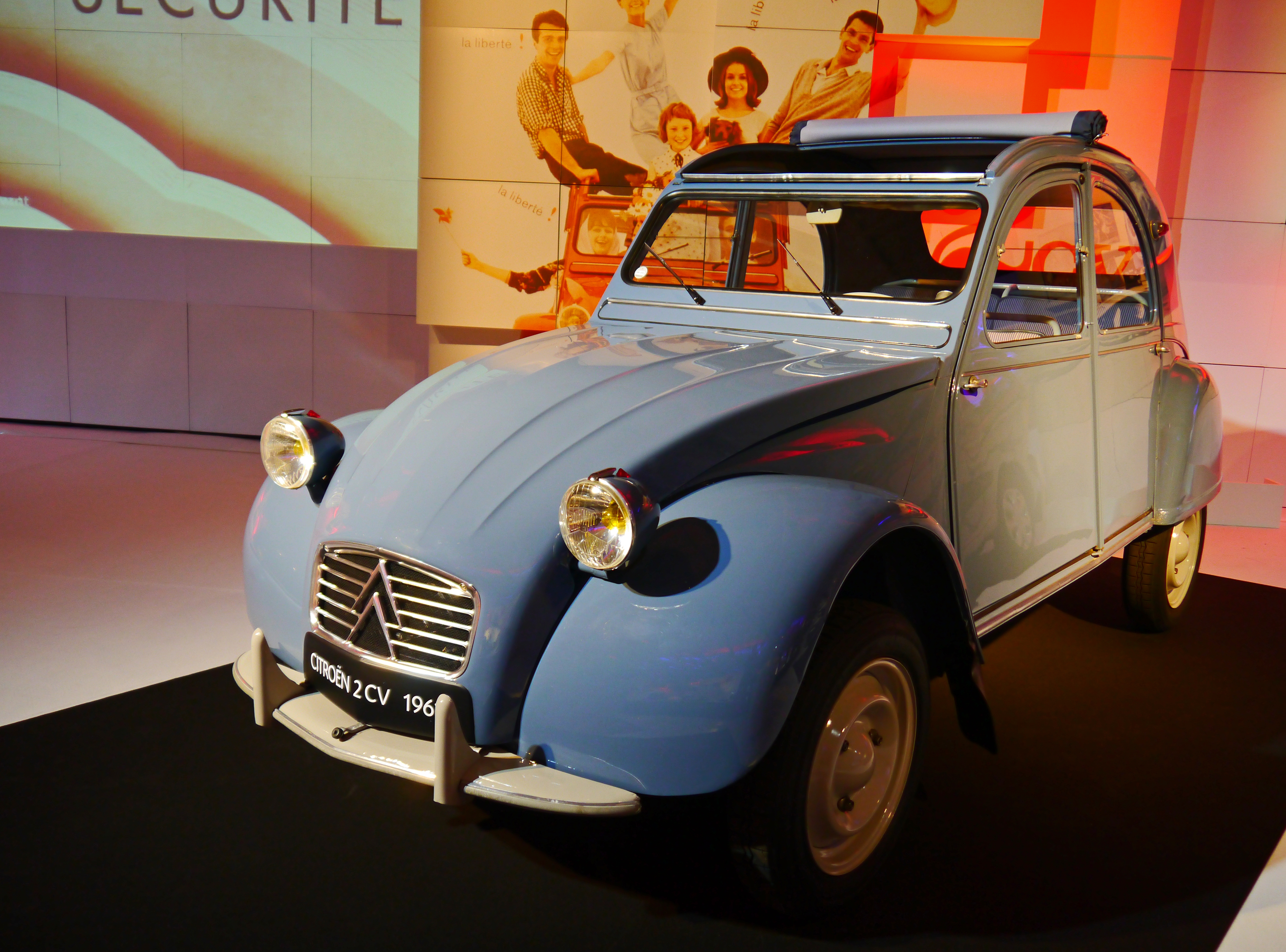 1961 Citroën 2CV AZ. 2-cylinder 425 cc engine (12 bhp).